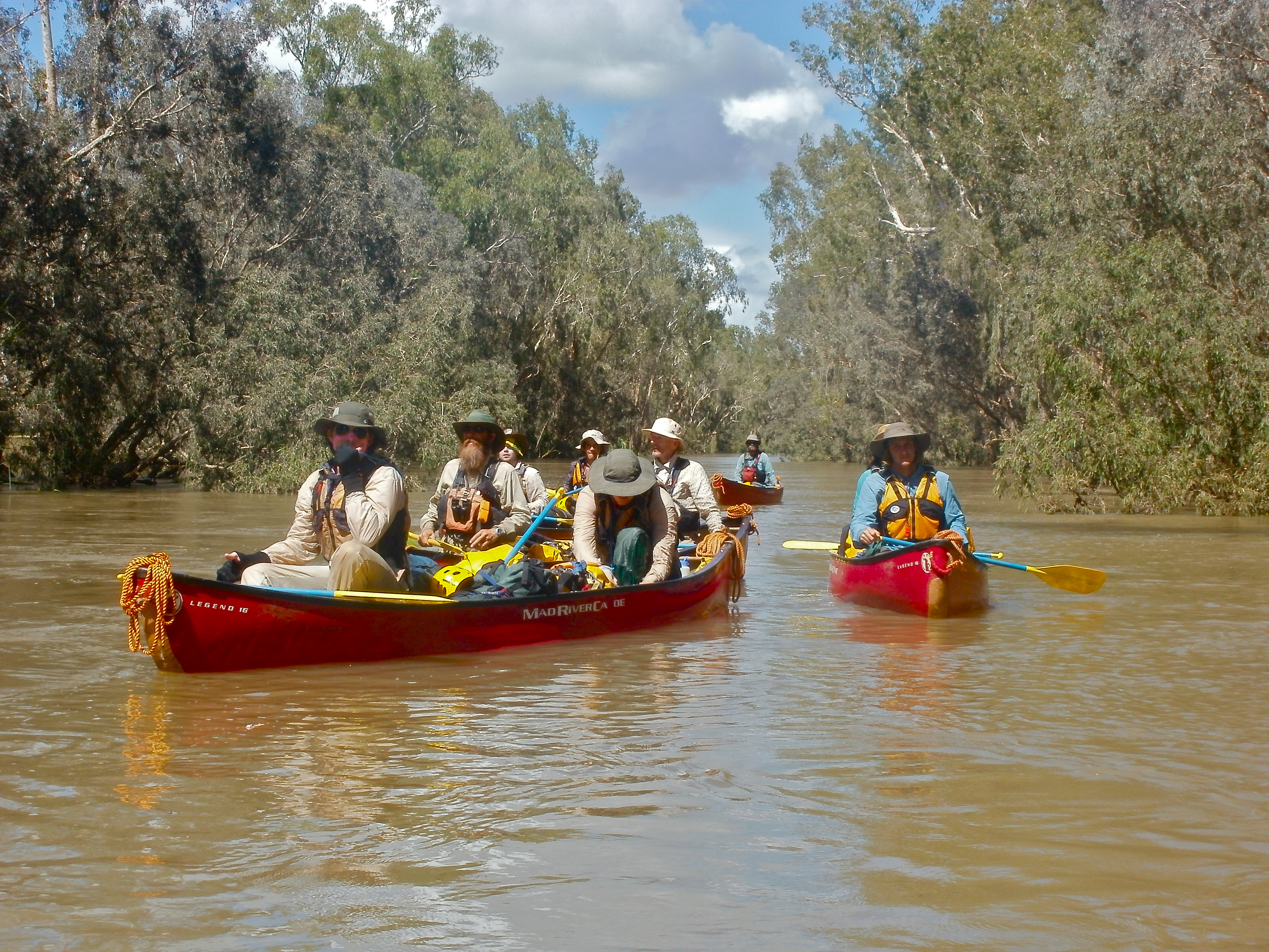 This is a photograph I took canoeing down the Drysdale River.